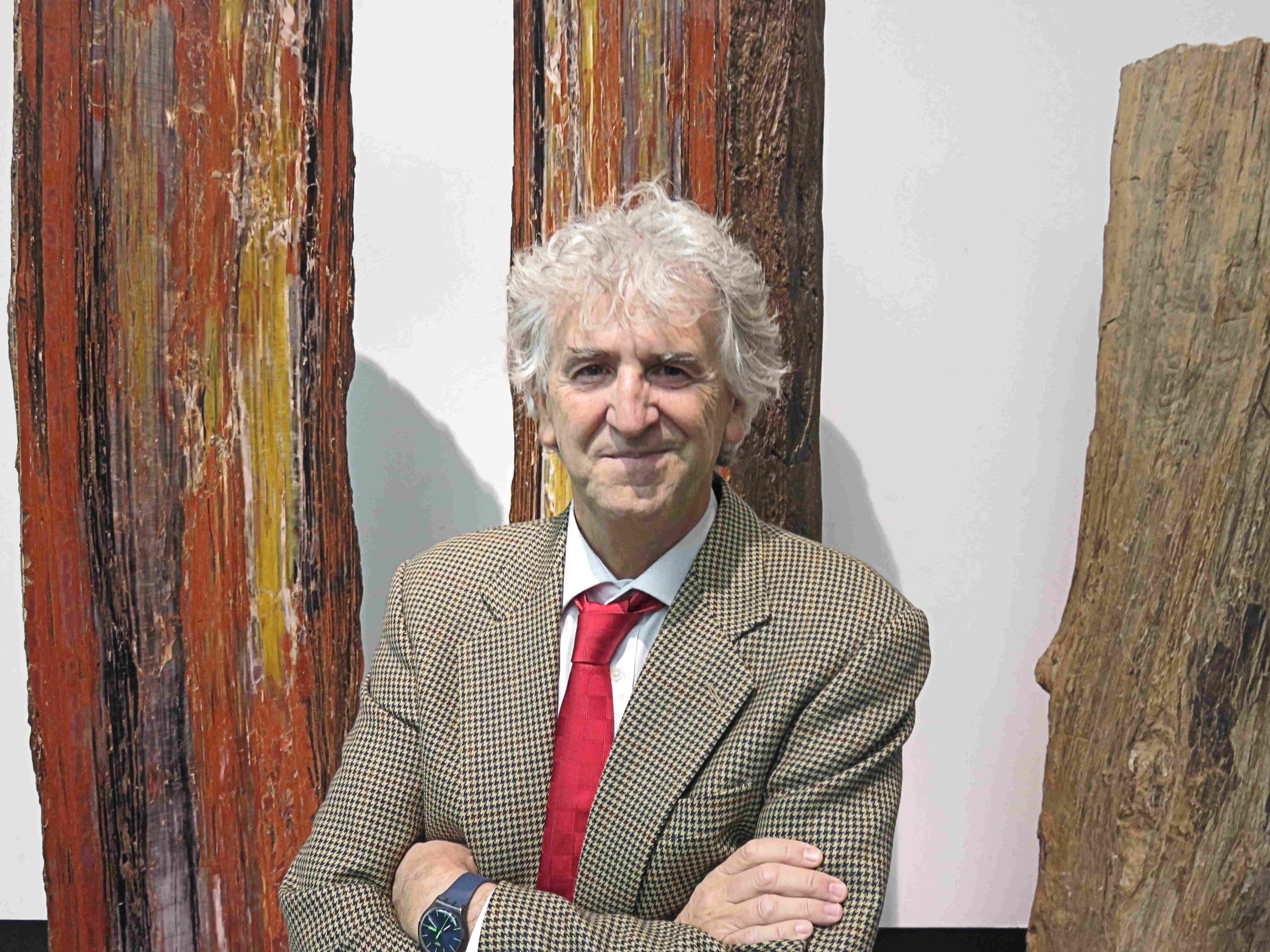 Juan Luis Arsuaga Ferreras (1954). Spanish paleoanthropologist.